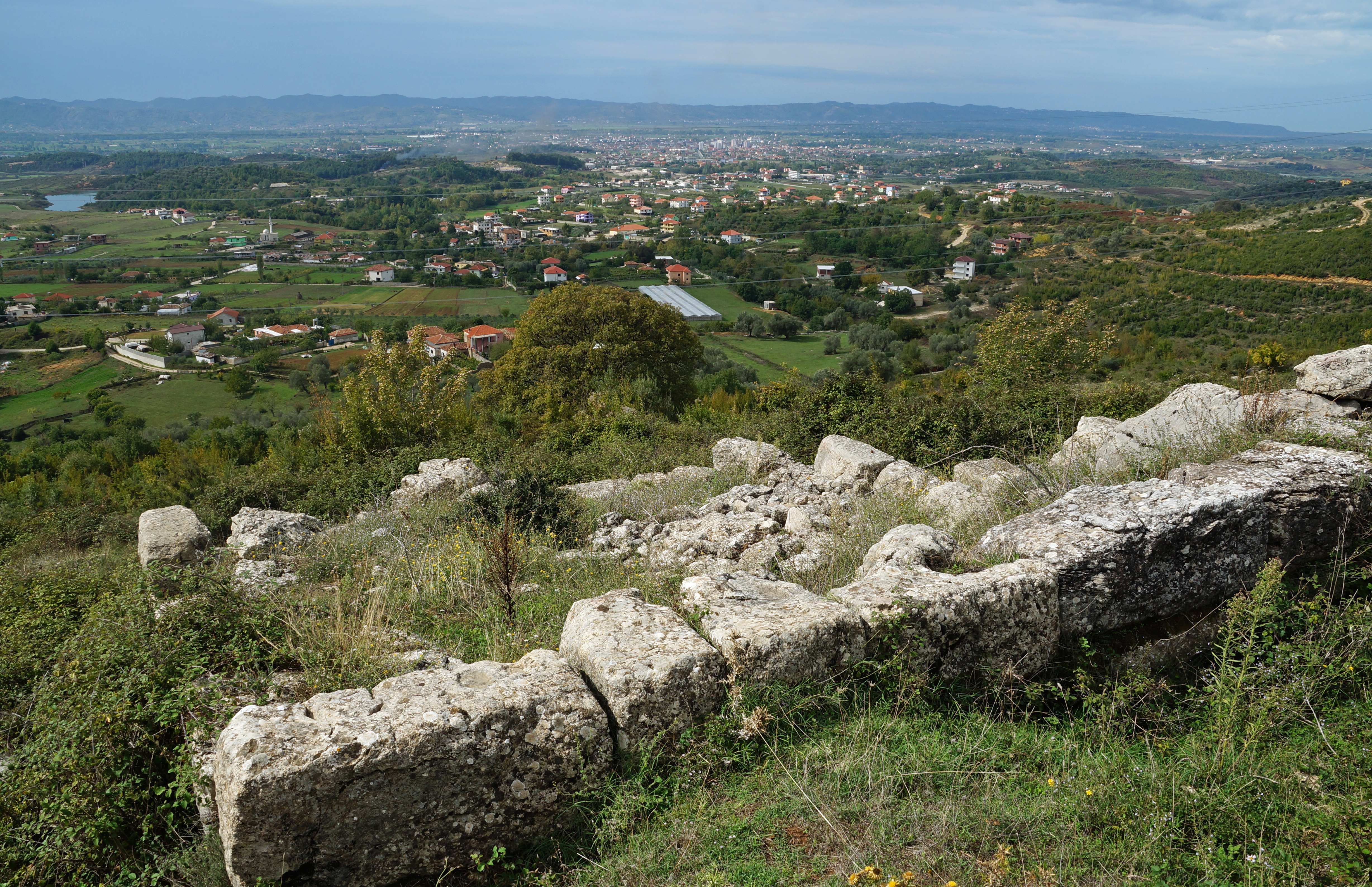 Zgërdhesh – some walls of the acropolis. View downhill over the vilalge of Halili and the plain of Fushë Krujë.